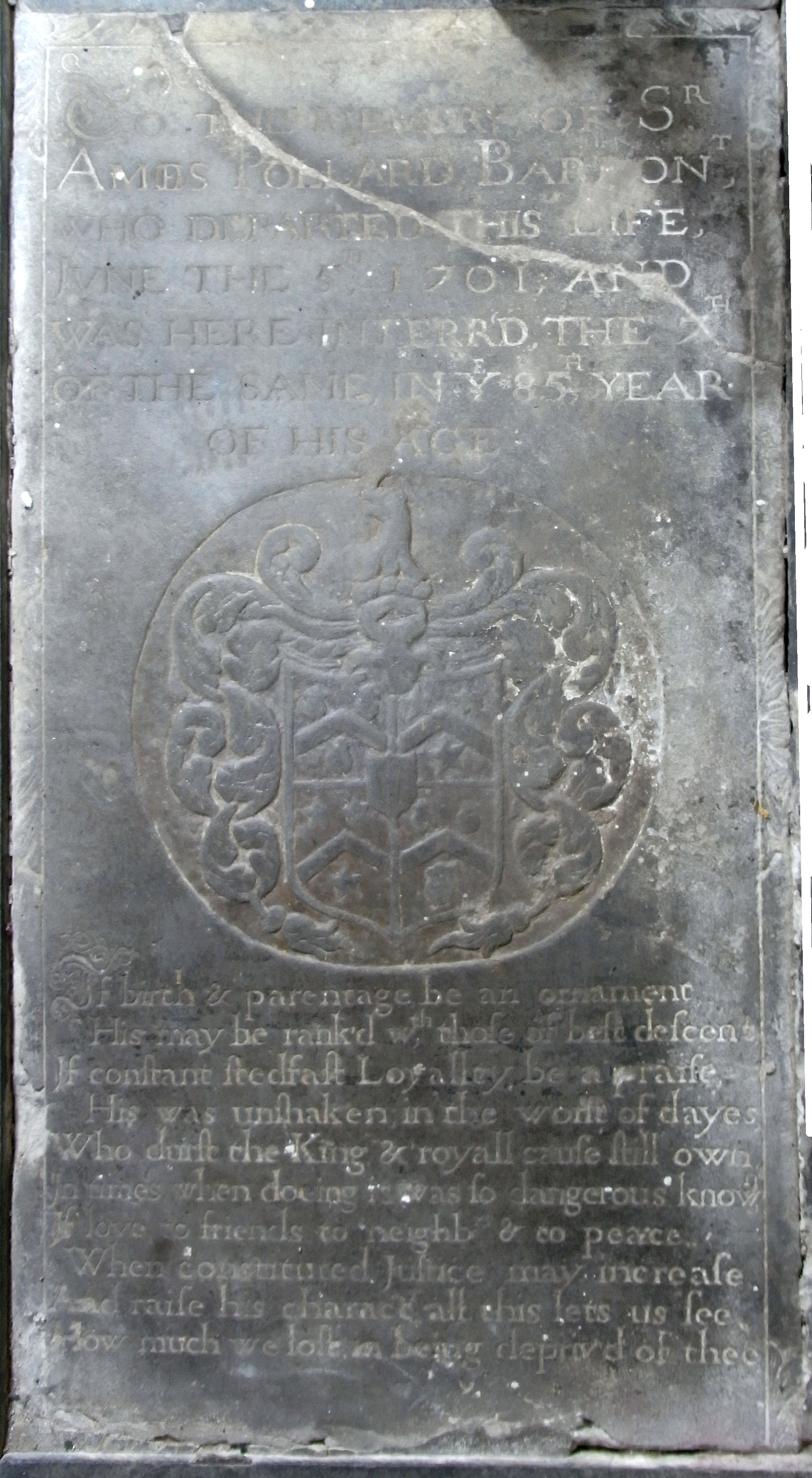 Ledger stone of Sir Amyas Pollard (1616-1701), 3rd Baronet, before the altar in Abbots Bickington Church, Devon. Inscribed as follows: "To the memory of Sr. Ames Pollard, Barron(e)t, who departed this life June the 5th 1701 and was here interr'd the 7th of the same in ye 85th year of his age". Below is an heraldic achievement of Pollard showing an escutcheon of the Pollard arms: Quarterly 1st & 4th, a chevron between three escallops; 2nd & 3rd: a chevron between three mullets; overall the Red Hand of Ulster. Above the escutcheon is the crest of Pollard: A leopard's head and neck erased. Beneath is the following verse: "If birth & parentage be an ornament, His may be rank'd w(i)th those of best descent, If constant stedfast loyallty be a praise, His was unshaken in the worst of dayes, Who durst the King & royall cause still own, In times when doing it was so dangerous known, If love to friends to neighb(ou)rs & to peace, When constituted justice may increase, And raise his charact(e)r all this lets us see, How much we lost in being depriv'd of thee.